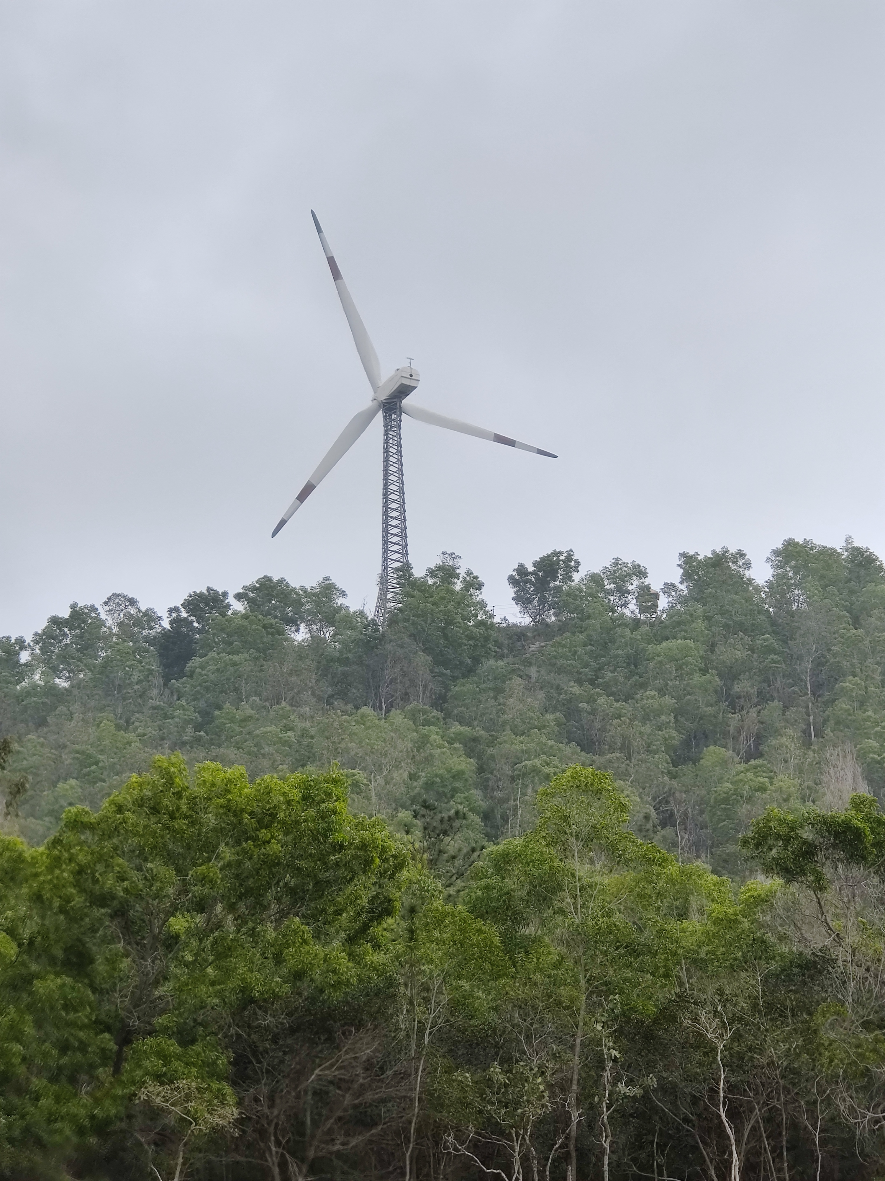 Wind Turbine on Tirumala hill, Tirupathi